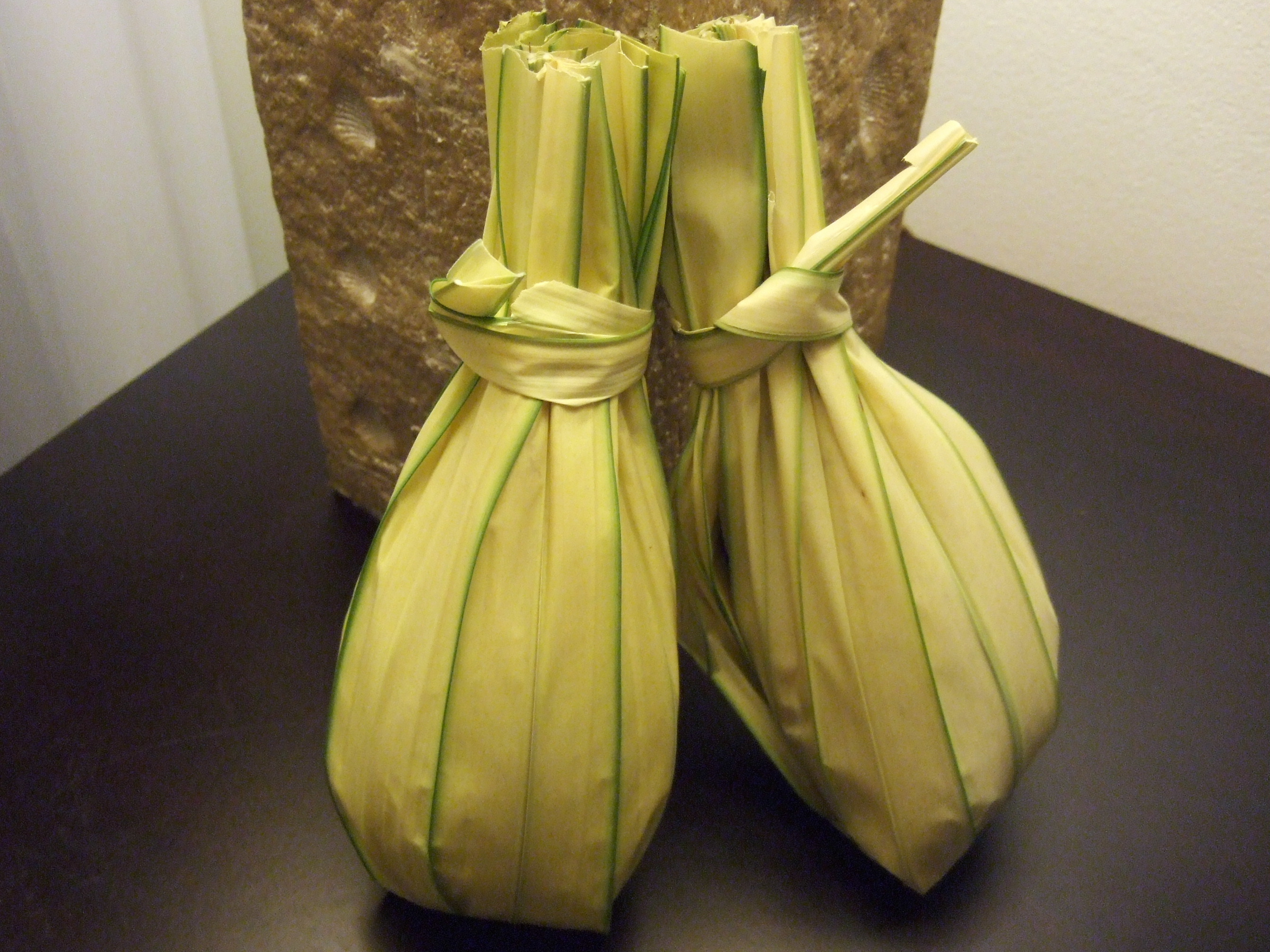 Take-out yellow rice